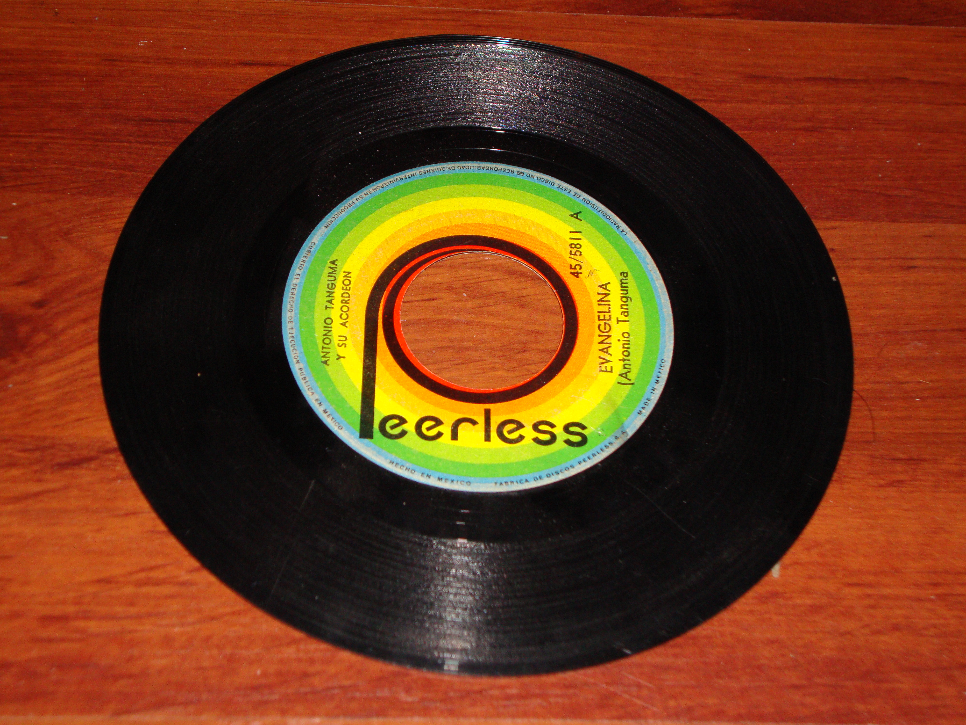 Image of a peerless disc